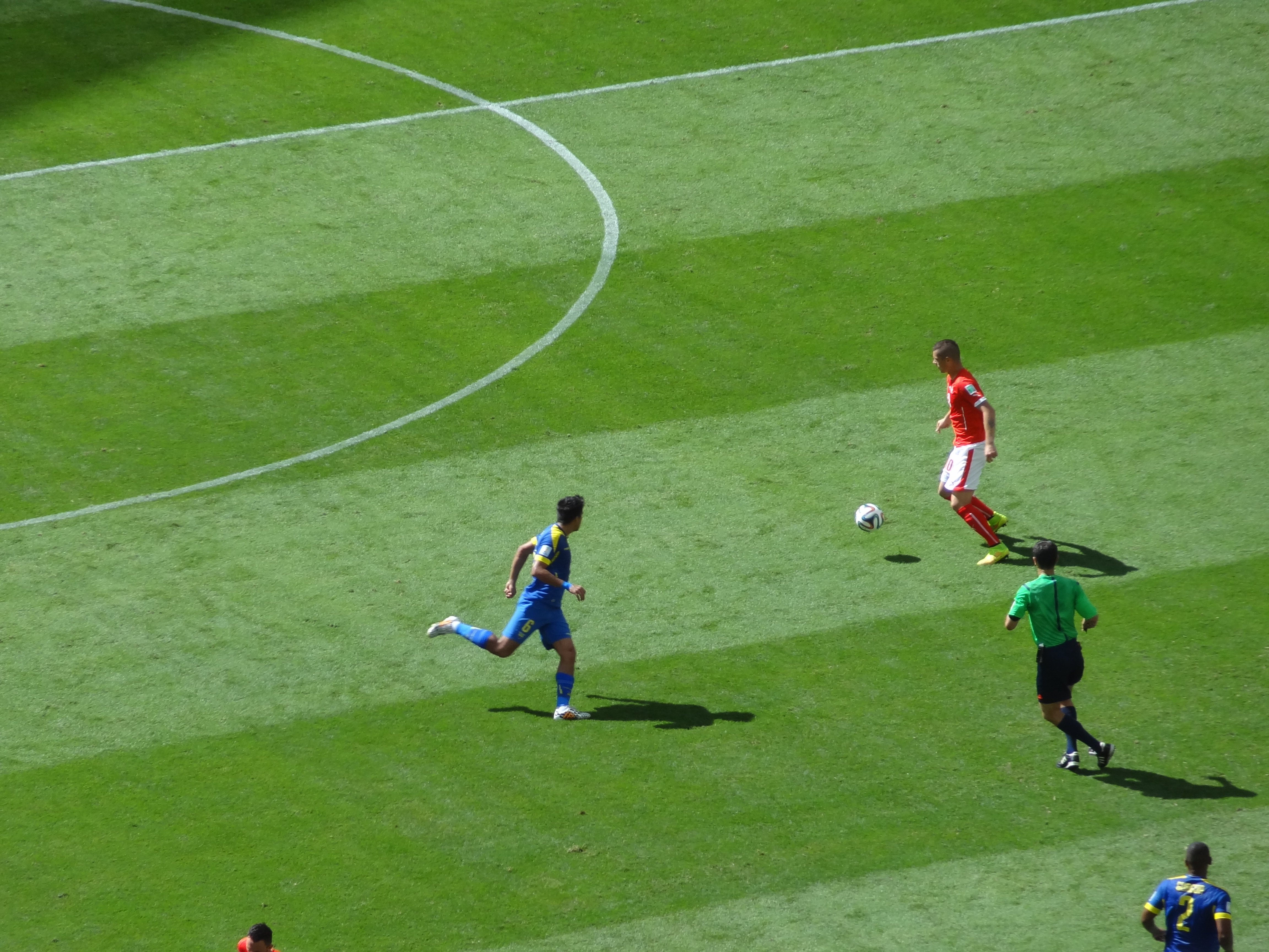 Switzerland and Ecuador match at the FIFA World Cup (2014-06-15), Estádio Nacional Mané Garrincha, Brasilia.